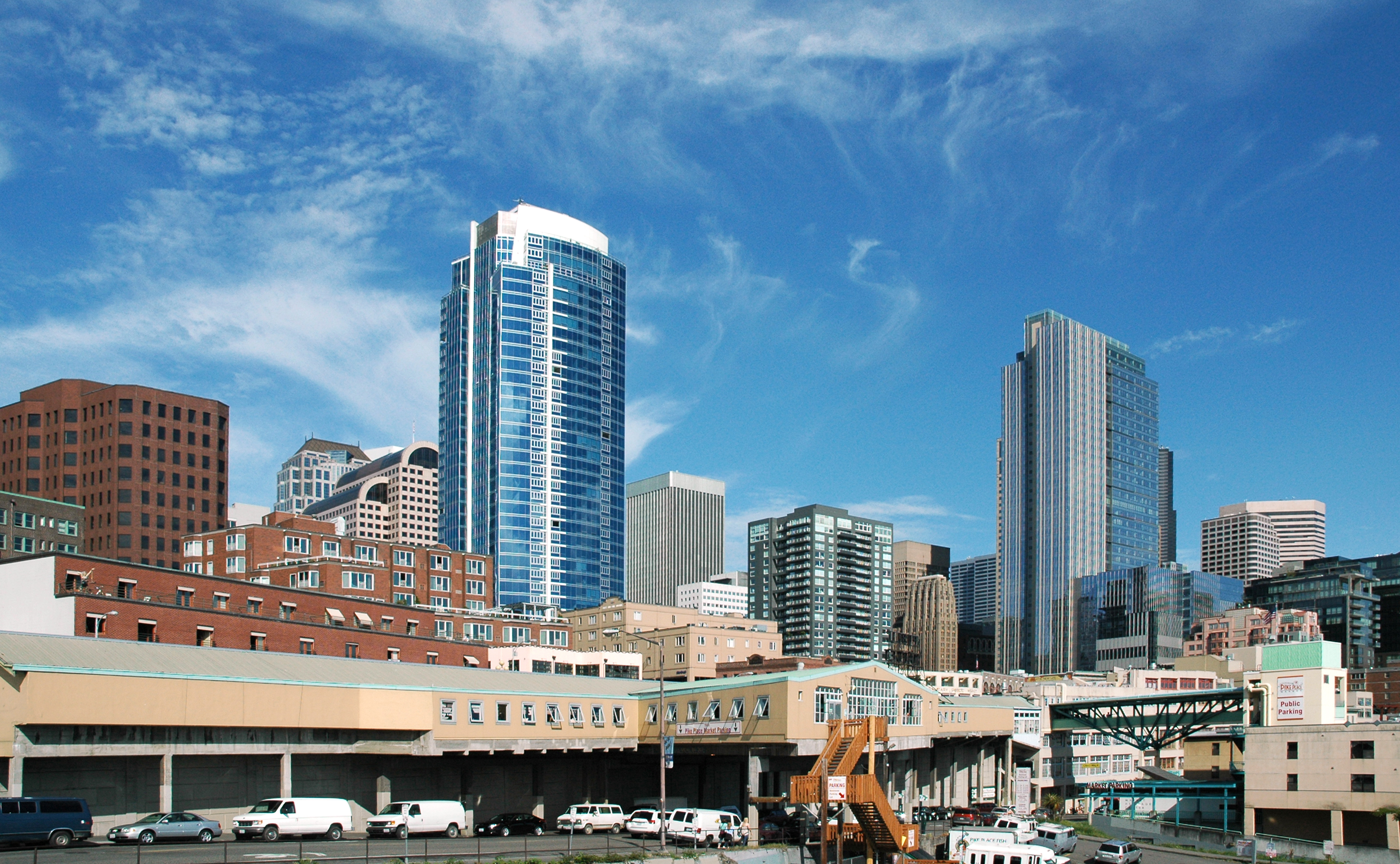 View on Downtown Seattle, including Fifteen Twenty-One Second Avenue, from the Victor Steinbrueck Park near Pike Place Market.